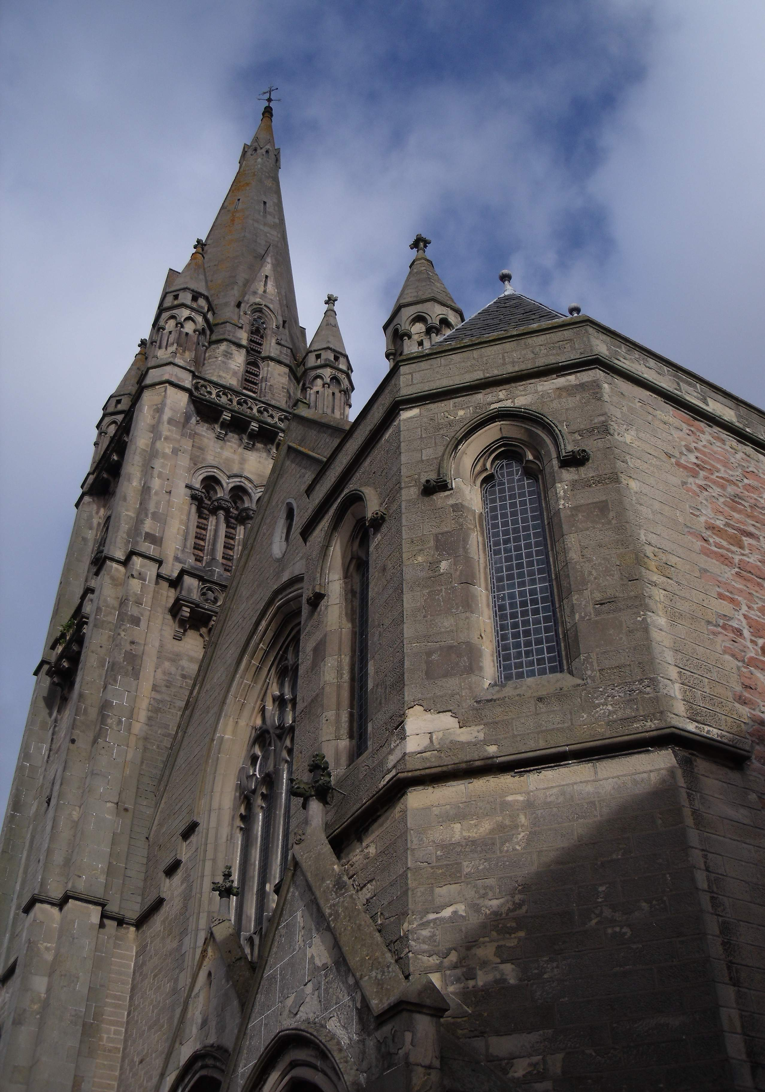 1,000 views on 20th November 2013 Although the Free North Church stands at a lower level than the Old High, its huge spire far exceeds the Old High in height. This Gothic church was designed by Alexander Ross and completed 1893. Seating capacity is 1,500, making it the largest church in Inverness; it also has the tallest steeple. The internal woodwork is a special feature. The church has recently been extensively renovated and redecorated in the original colours. The "bottom end" of Church Street in Inverness is a quieter part of the Town (City) Centre these days, and yet it contains some really old and beautiful buildings which really should attract more visitors. Grouped closely together between Church Street and Bank Street (River Ness) are the Dunbar Hospital, Old High Church and the Free North Church. At the top end of Church Lane is the Dunbar Hospital, alongside the lane (its graveyard running the length of the lane) is the Old High Church of Scotland, and at the foot of the lane facing the Greig Street footbridge over the River Ness is the Free North Church of the Free Church of Scotland. The last couple of days, while the sun shone (briefly each day!) I have had a wee opportunty to wander about with my camera and take some shots from different angles.